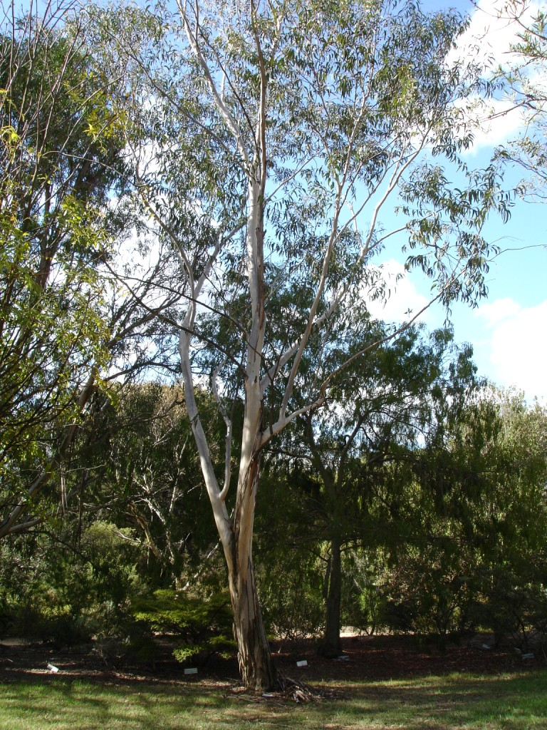 Photographed at Maranoa Gardens, Melbourne, Victoria, Australia by HelloMojo 08:41, 6 April 2007 (UTC)